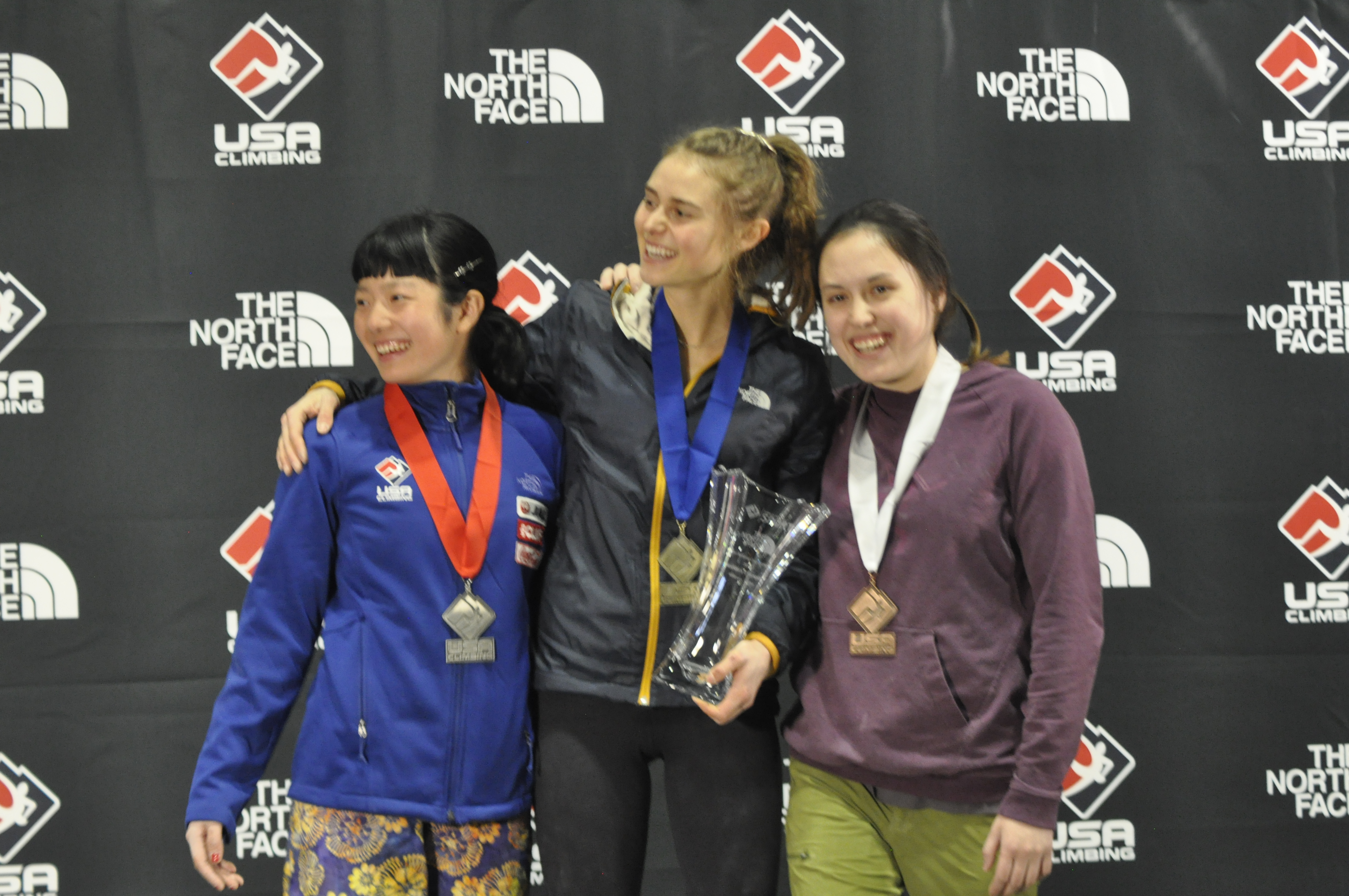 2019 Sport & Speed Open National Championships held on March 8-9, 2019 in Sportrock climbing gym in Alexandria, Virginia. Sport winners during award ceremony.